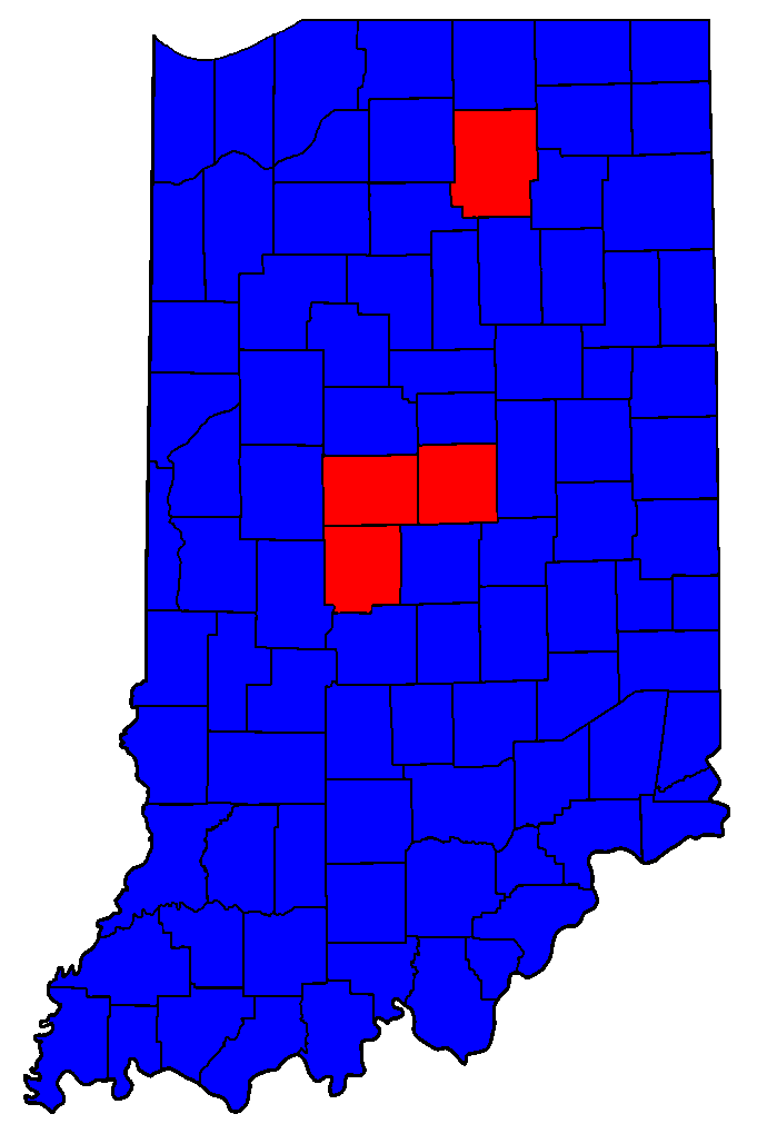 Self-created image showing county-by-county results of 1998 Indiana US Senate election.